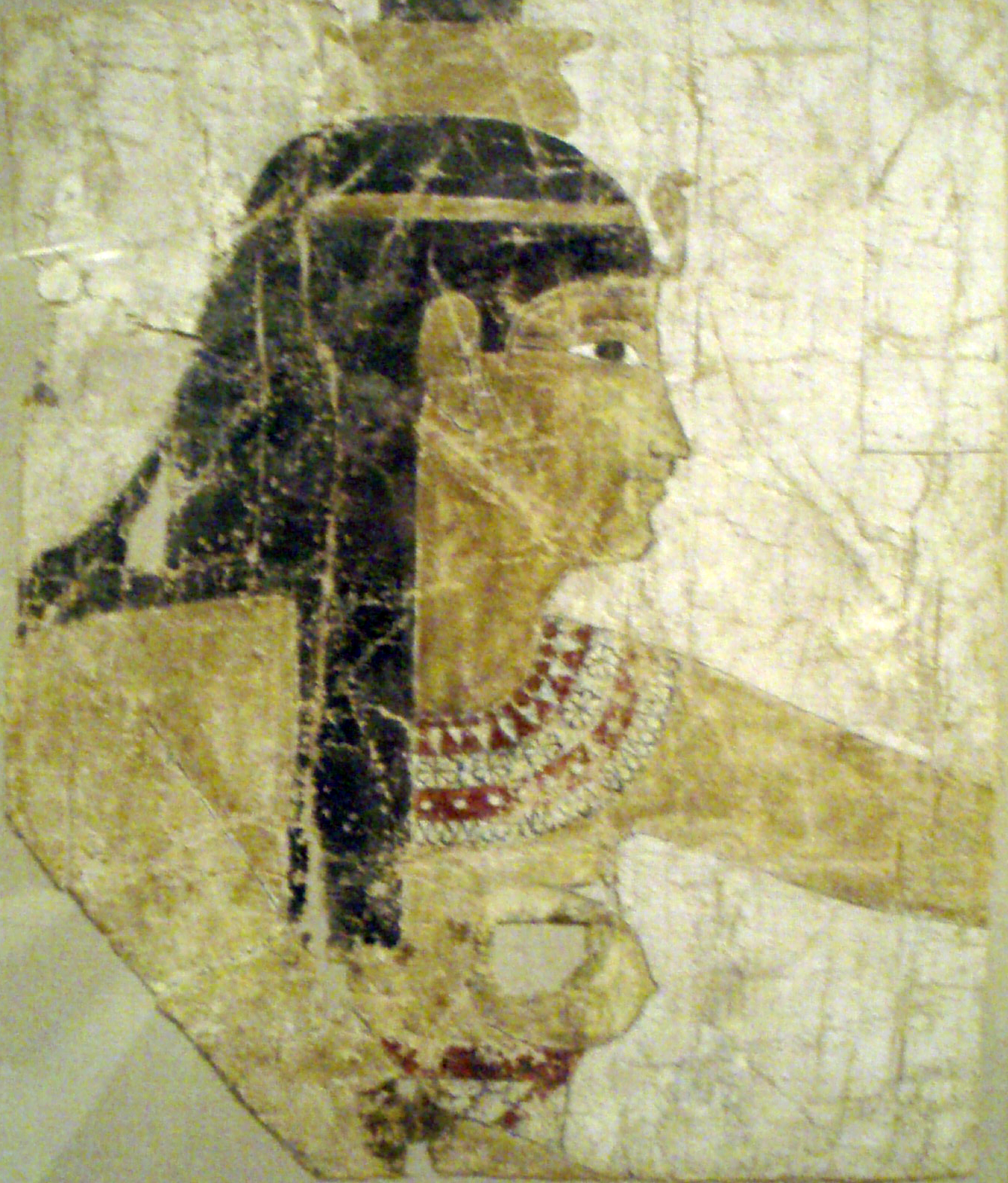 The painted image of the goddess Isis from a shroud, made of linen and tempera. Likely from the 2nd to 1st century B.C. Now on display at the Metropolitan Museum of Art.